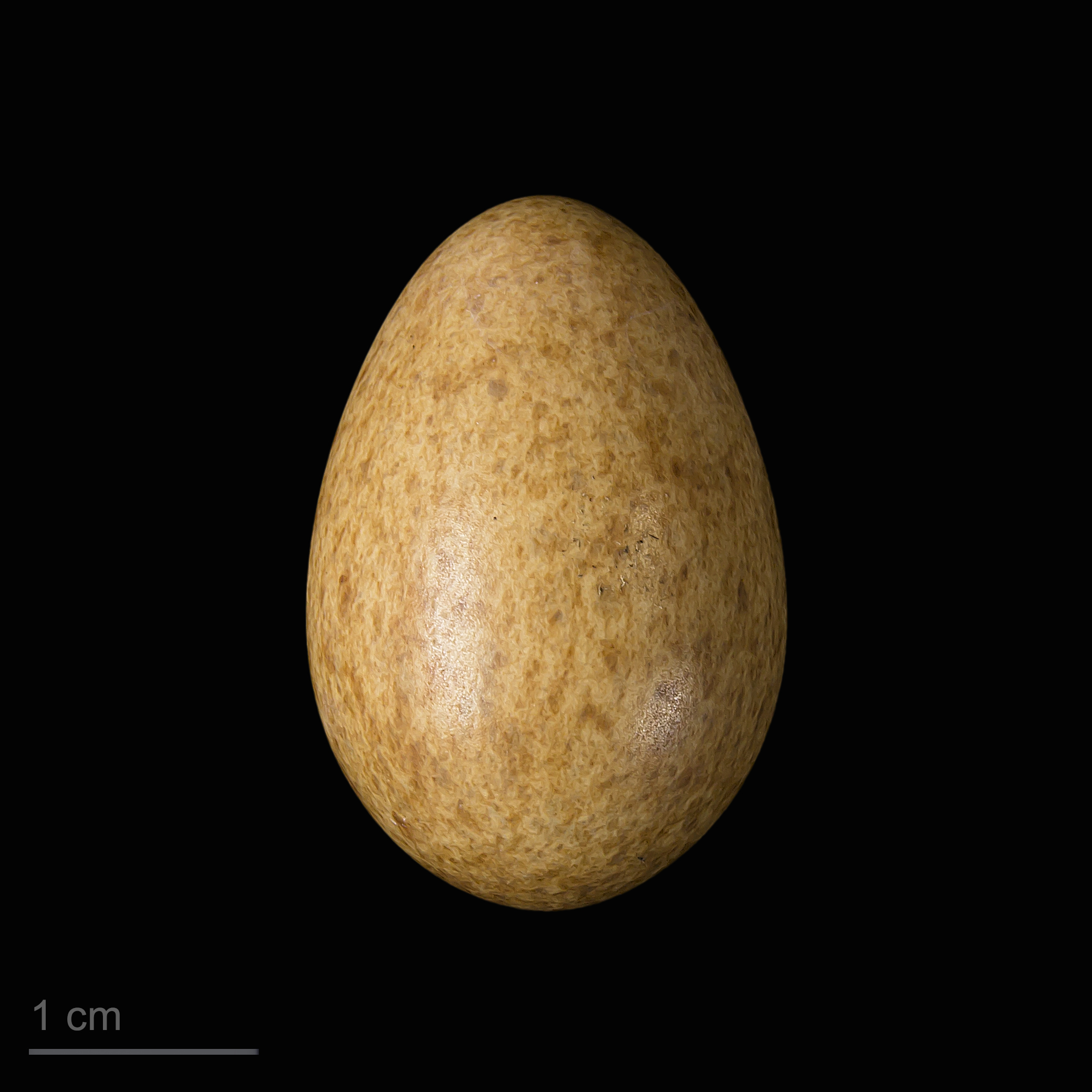 Eggs of Baillon's crake collection of Jacques Perrin de Brichambaut.